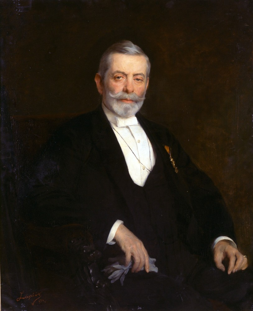 Ignác Wechselmann (1828-1903) was a builder in vogue who realized the buildings designed by the famous architect Miklós Ybl.